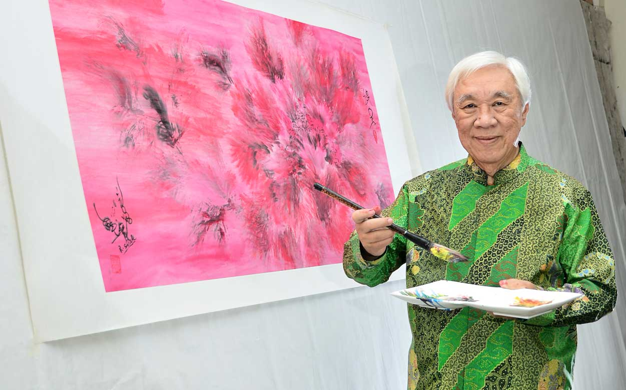 Sidik w. Martowidjojo with his paint taken from Kabare magazine Edition 166 April 2016